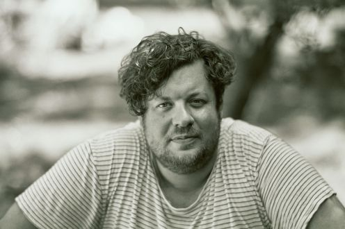 Schauspieler Till Butterbach